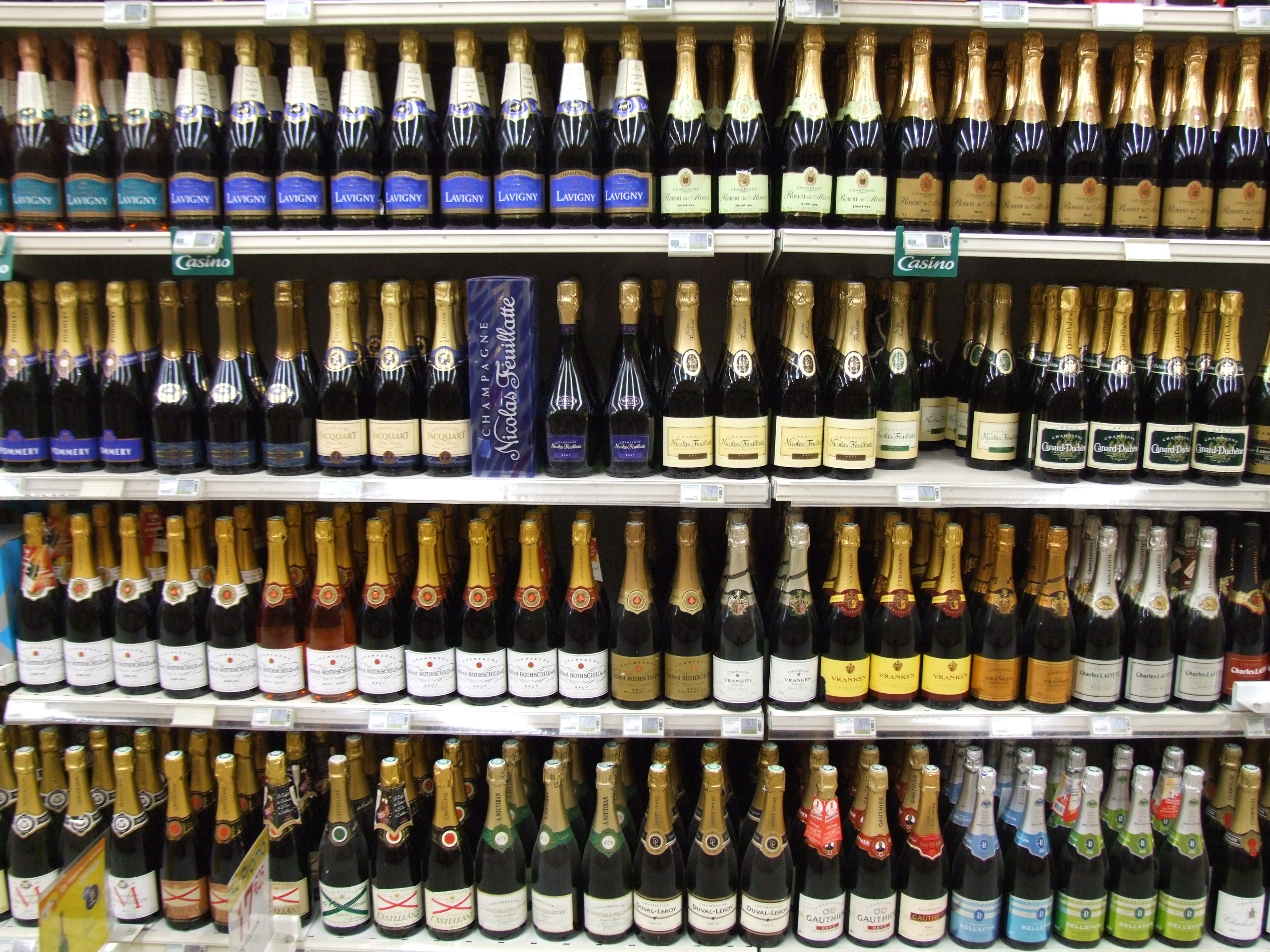 Well sorted Champagne aisle as seen in a french Supermarché.